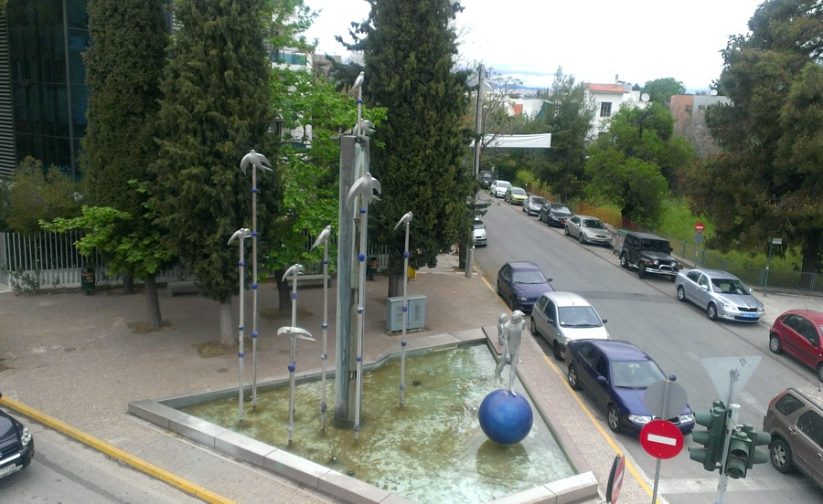 filothei